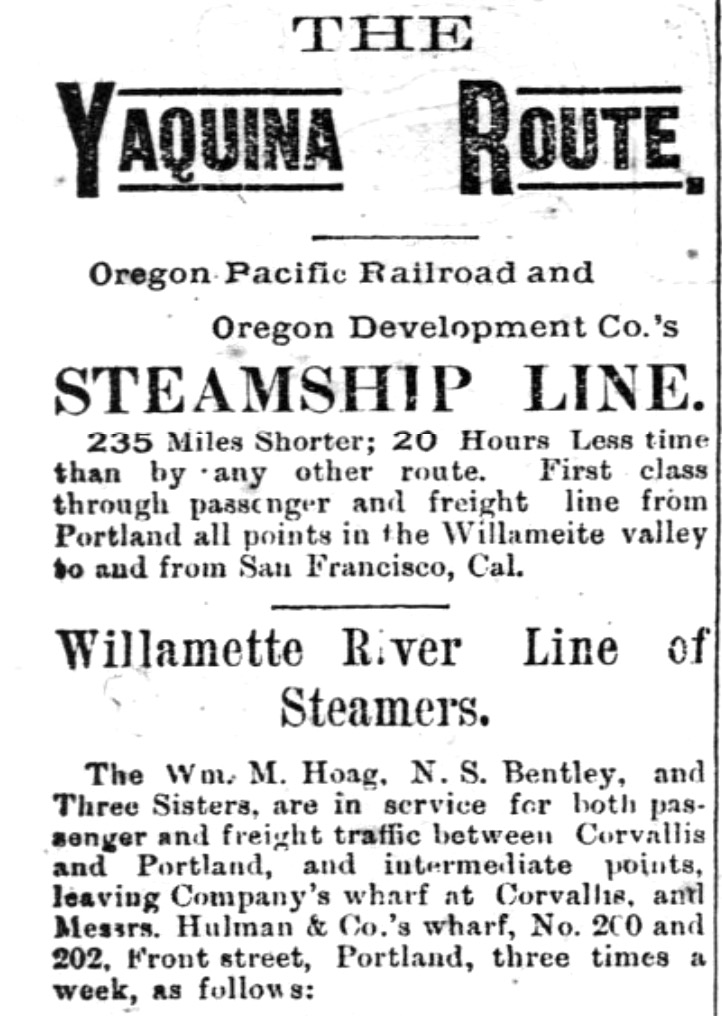 Advertisement for steamboat and rail service from Portland, Oregon to Yaquina, Oregon, and then to San Francisco.